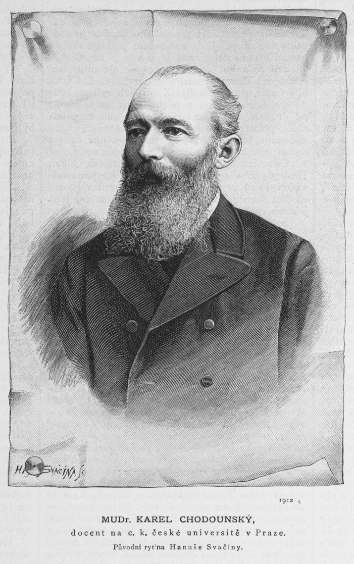 Portrait of Karel Chodounský (1843-1931), Czech physician-pharmacologist, professor of Charles University, promoter of sports.